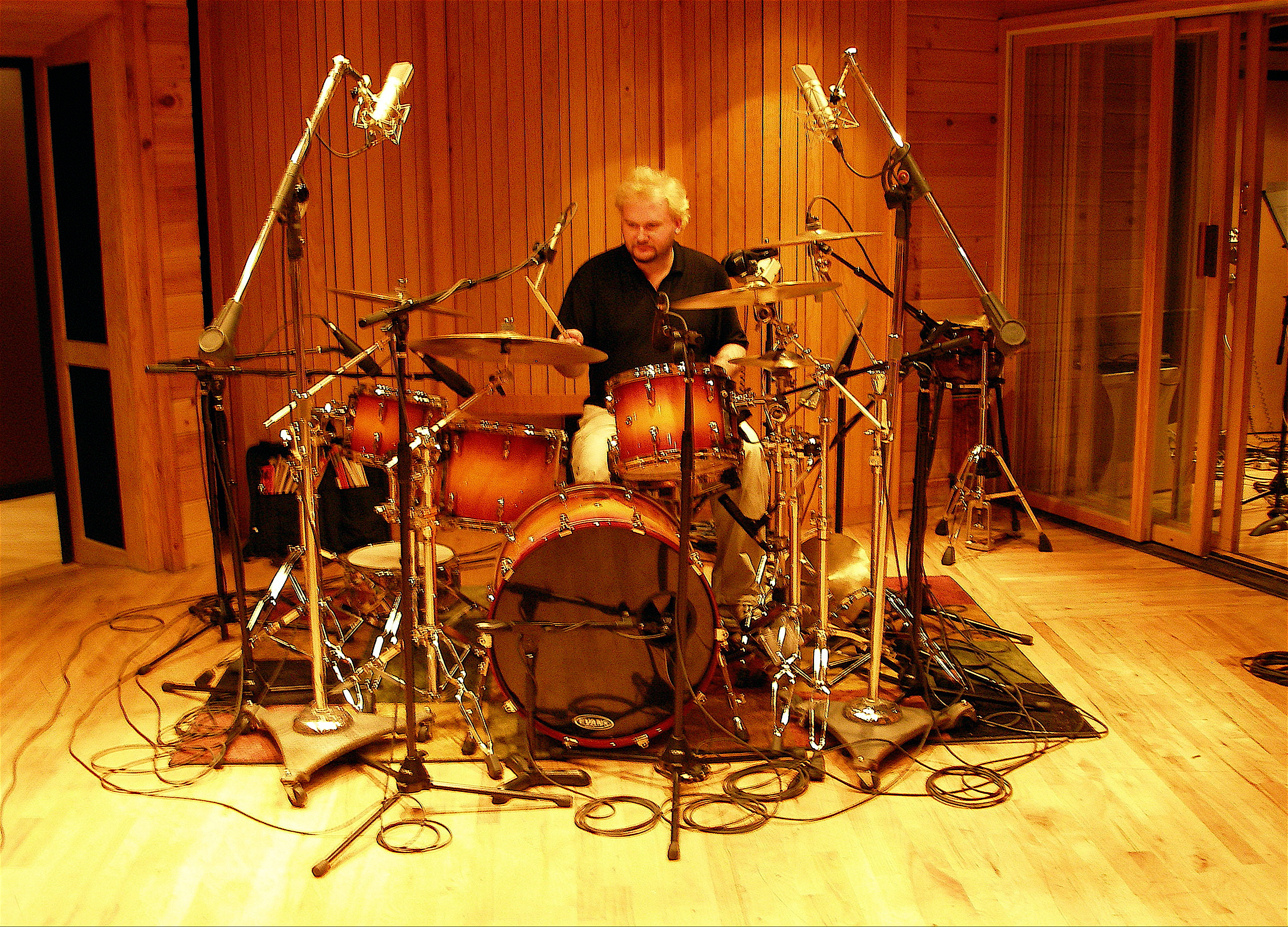 Thaler recording at Tainted Blue Studios in New York, 2006